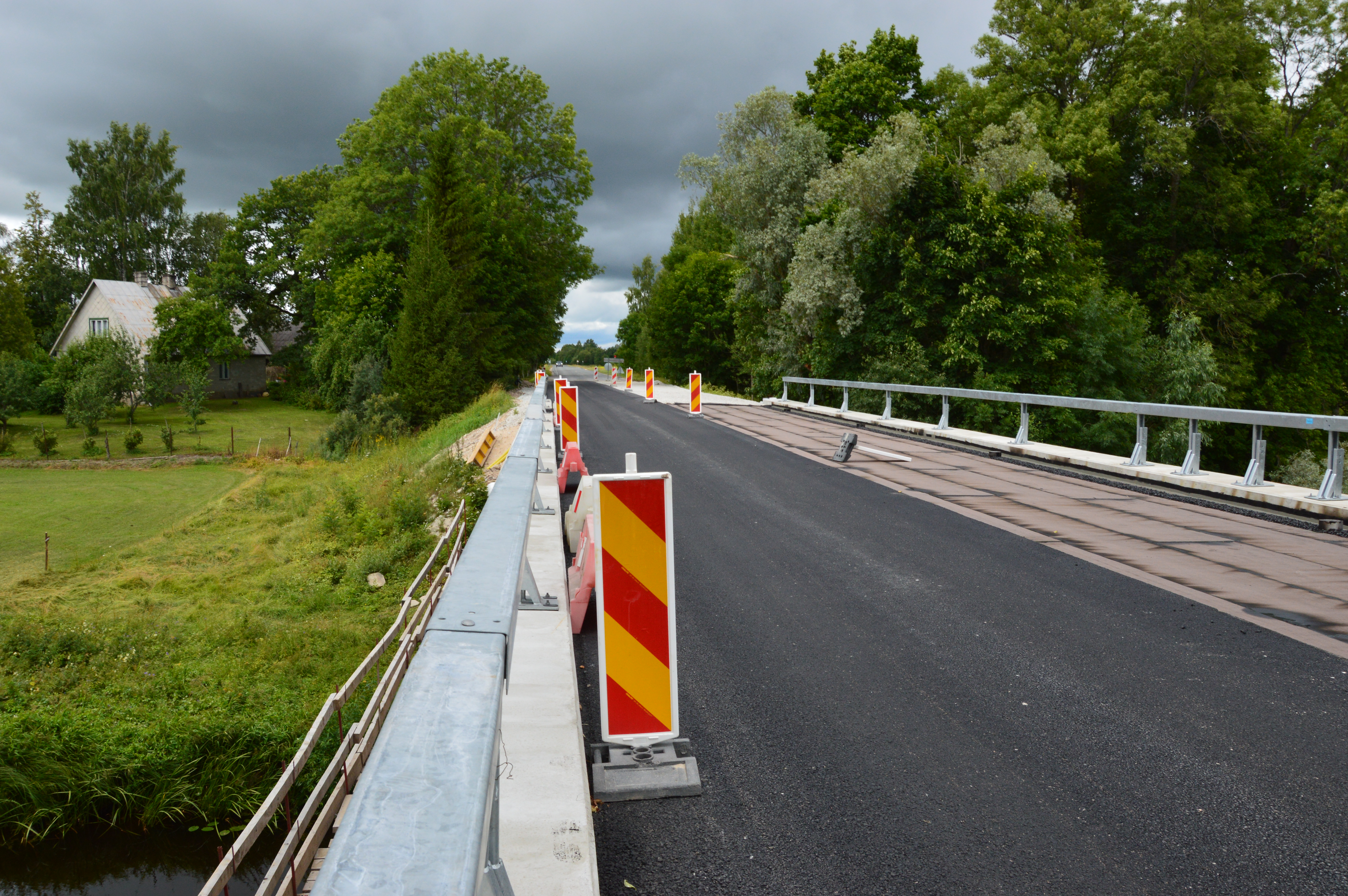 Bridge over Velise River. Silla–Jädivere road.